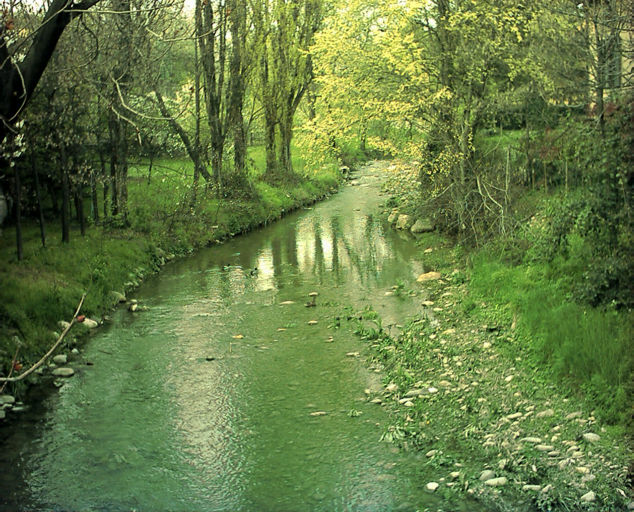 Quisa river, Bergamo, Lombardy, Italy